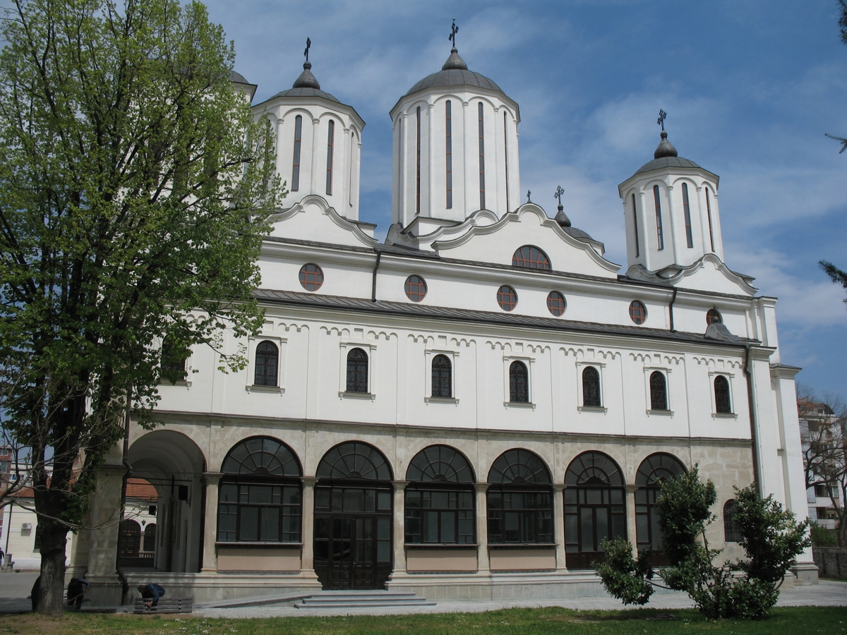 Saborna crkva (church) in Niš, Serbia.